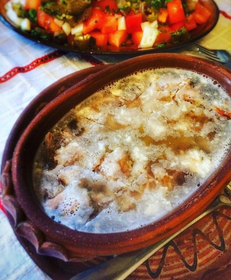 In Macedonia, and especially in its northern parts, there are no winter days without this traditional meal. It is made from pork parts, has an unexpectedly rich taste, usually served with a glass of homemade brandy. Comfort food that warms the soul.